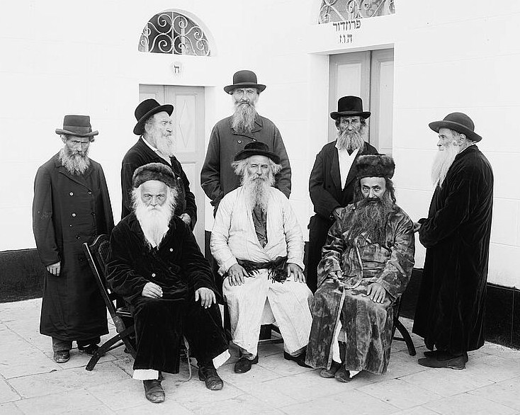 Group of old Jewish men in Jerusalem — approximately 1900 to 1920. During either Ottoman Palestine era (c. 1870s - 1920), or the British Mandate of Palestine (1920–1948). Costumes, characters, etc.